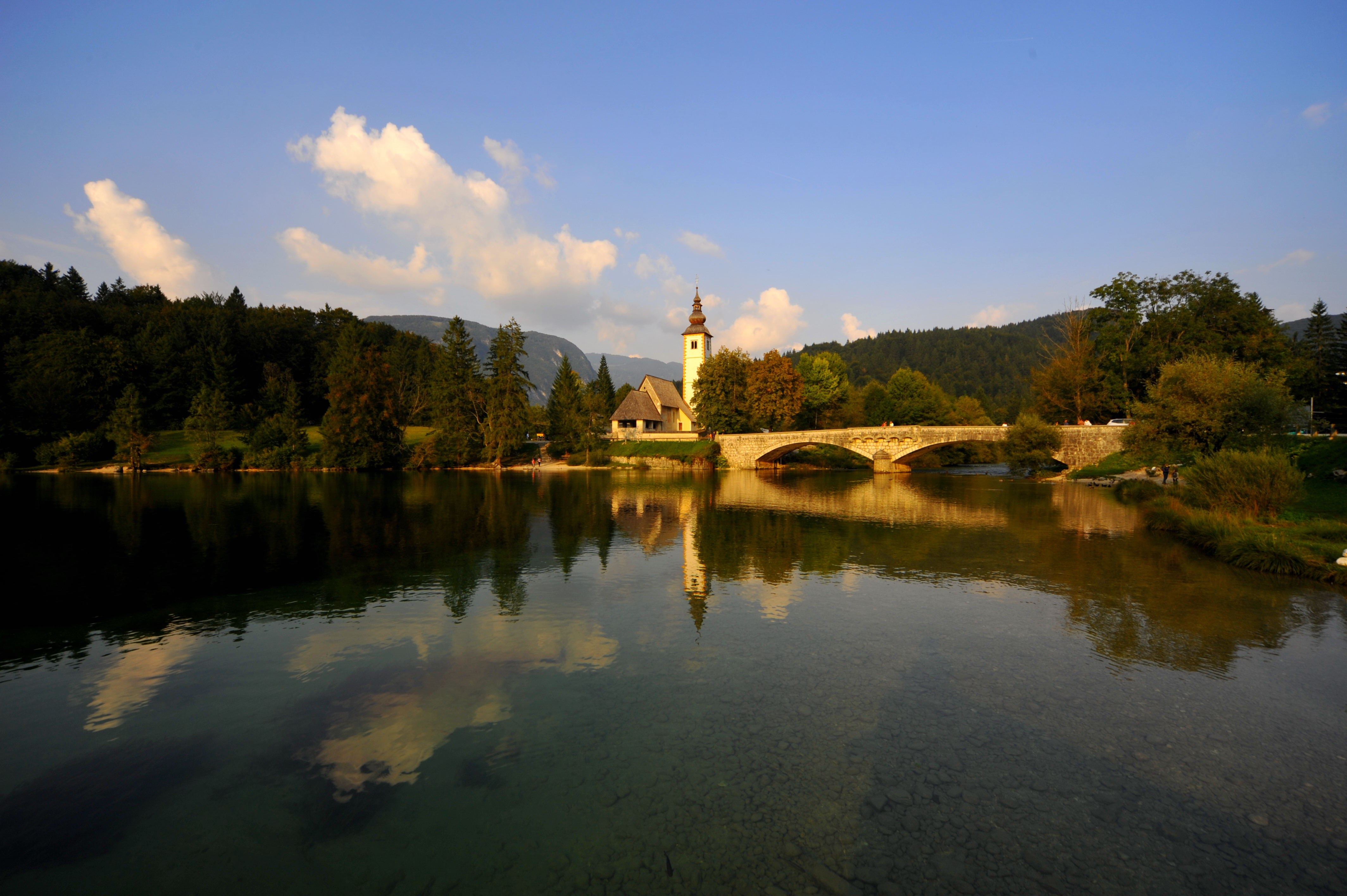 East shore of the Lake Bohinj in the Upper Carniola, Slovenia